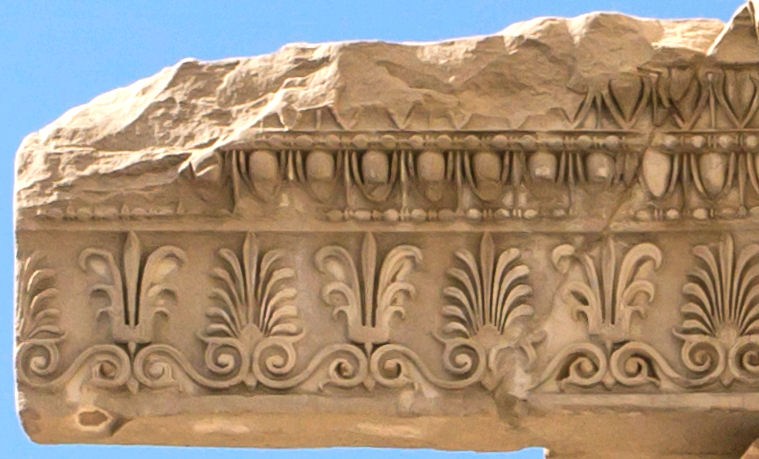 Frieze at Erechtheum 5th century BCE